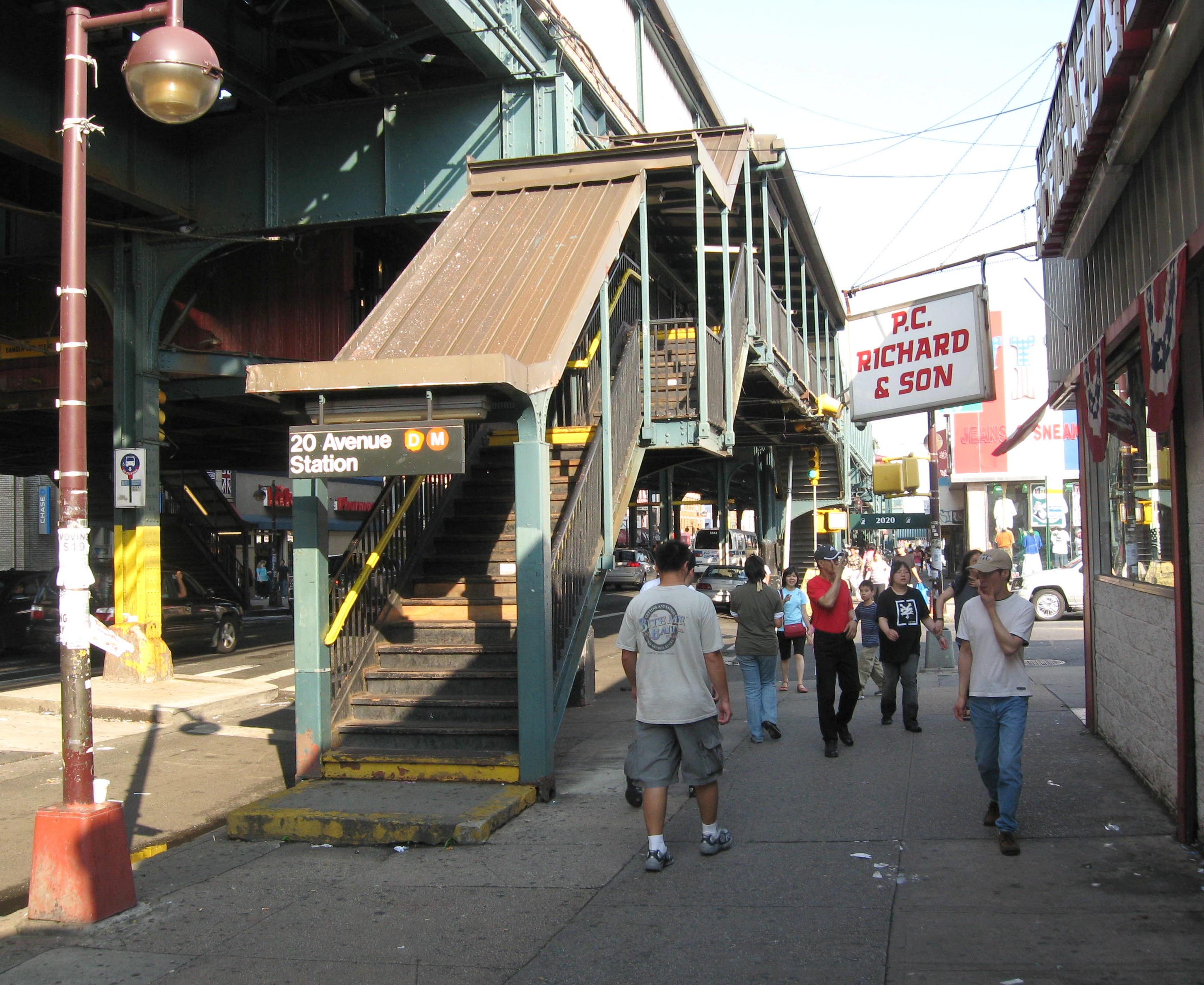 Looking east along 86th Street at southwestern stair of 20th Avenue station of the elevated West End Line in Bath Beach on a sunny afternoon. ZIP 11214.